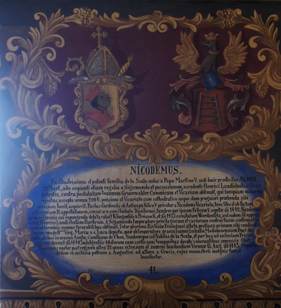 Wappentafel von Nikodemus della Scala, Fürstbischof von Freising, im Fürstengang zwischen Fürstbischöflicher Residenz und Freisinger Dom. Links das geistliche, rechts das persönliche Wappen, darunter ein lateinischer Text mit kurzer Biographie.